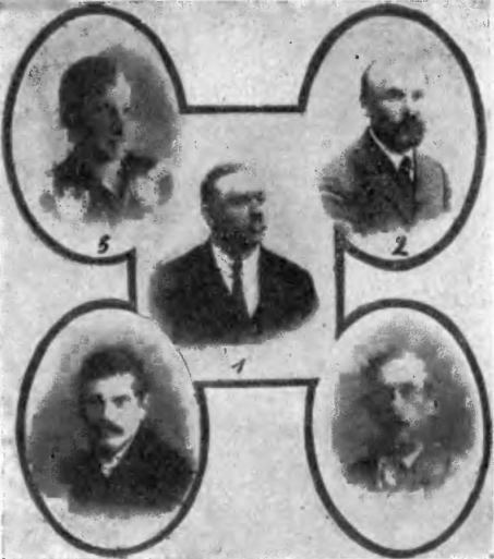 Leaders of Ukrainian society active in Poland in mid-war period - Ridna Chata.